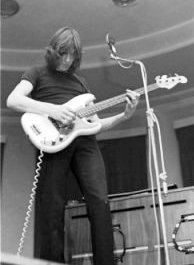 Pink Floyd performing in the Refectory Hall at Leeds University. There was a support act called Heavy Jelly.